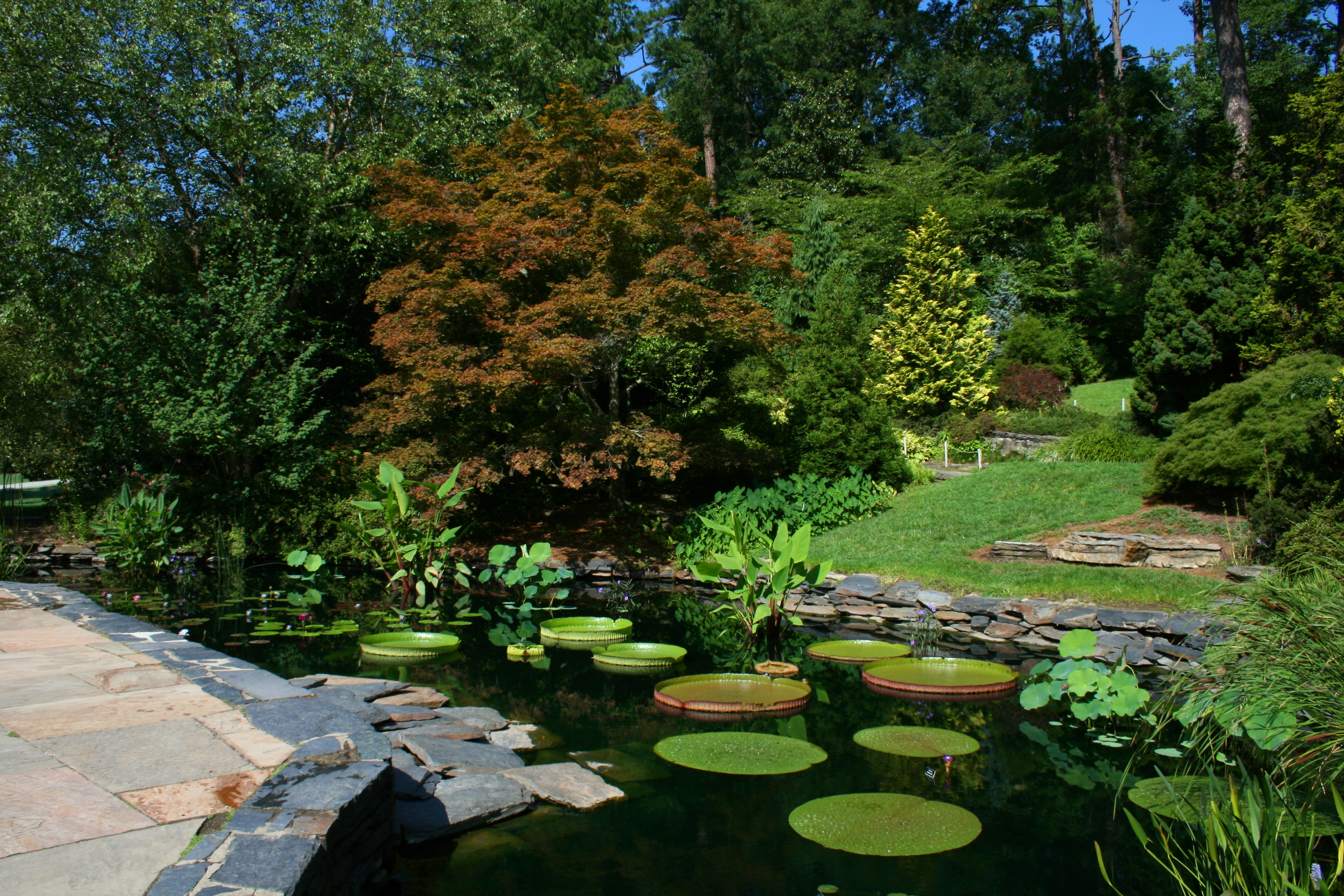 Lily pond at Duke Gardens at Duke University in Durham, North Carolina.